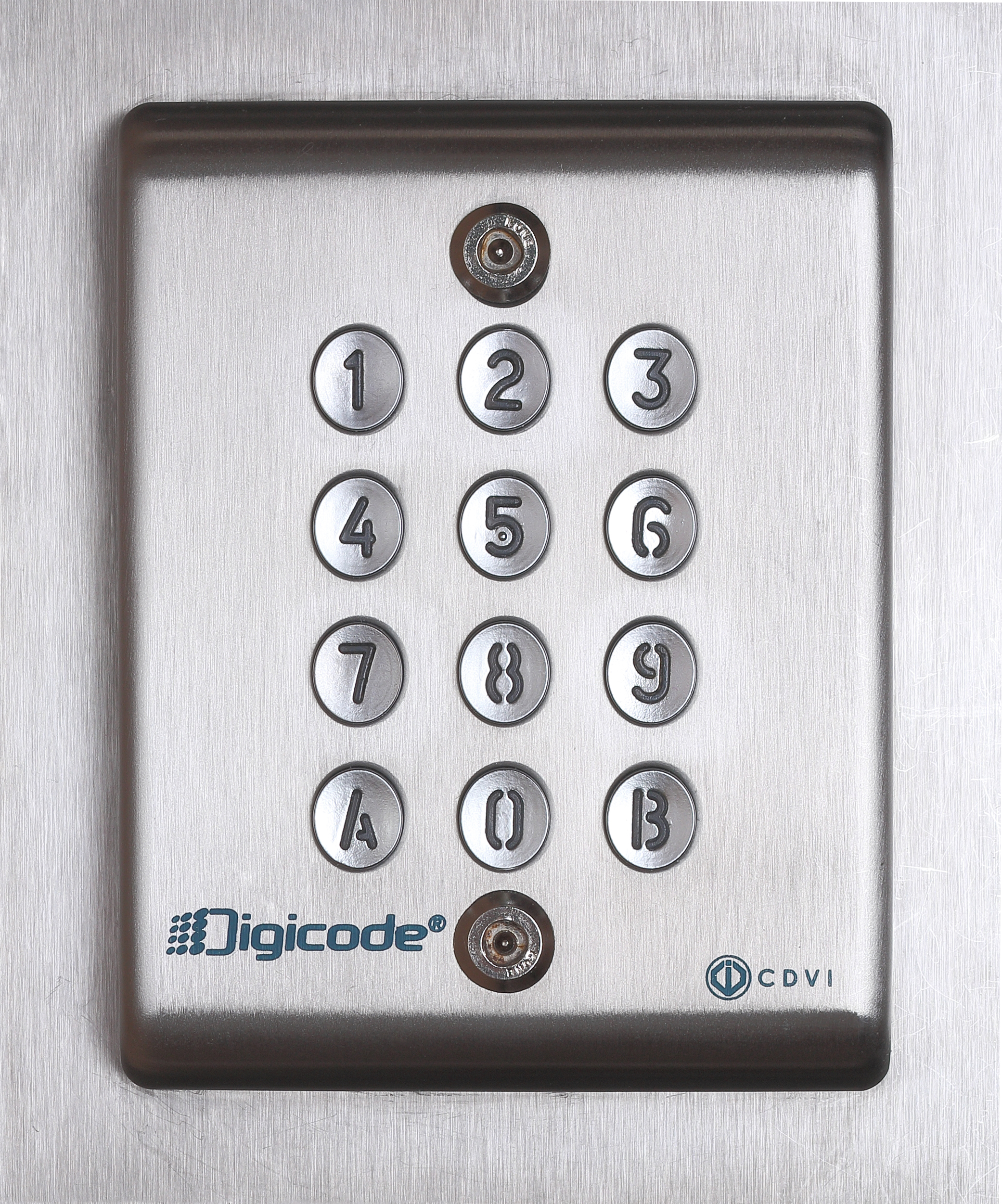 Digicode keypad in an elevator.